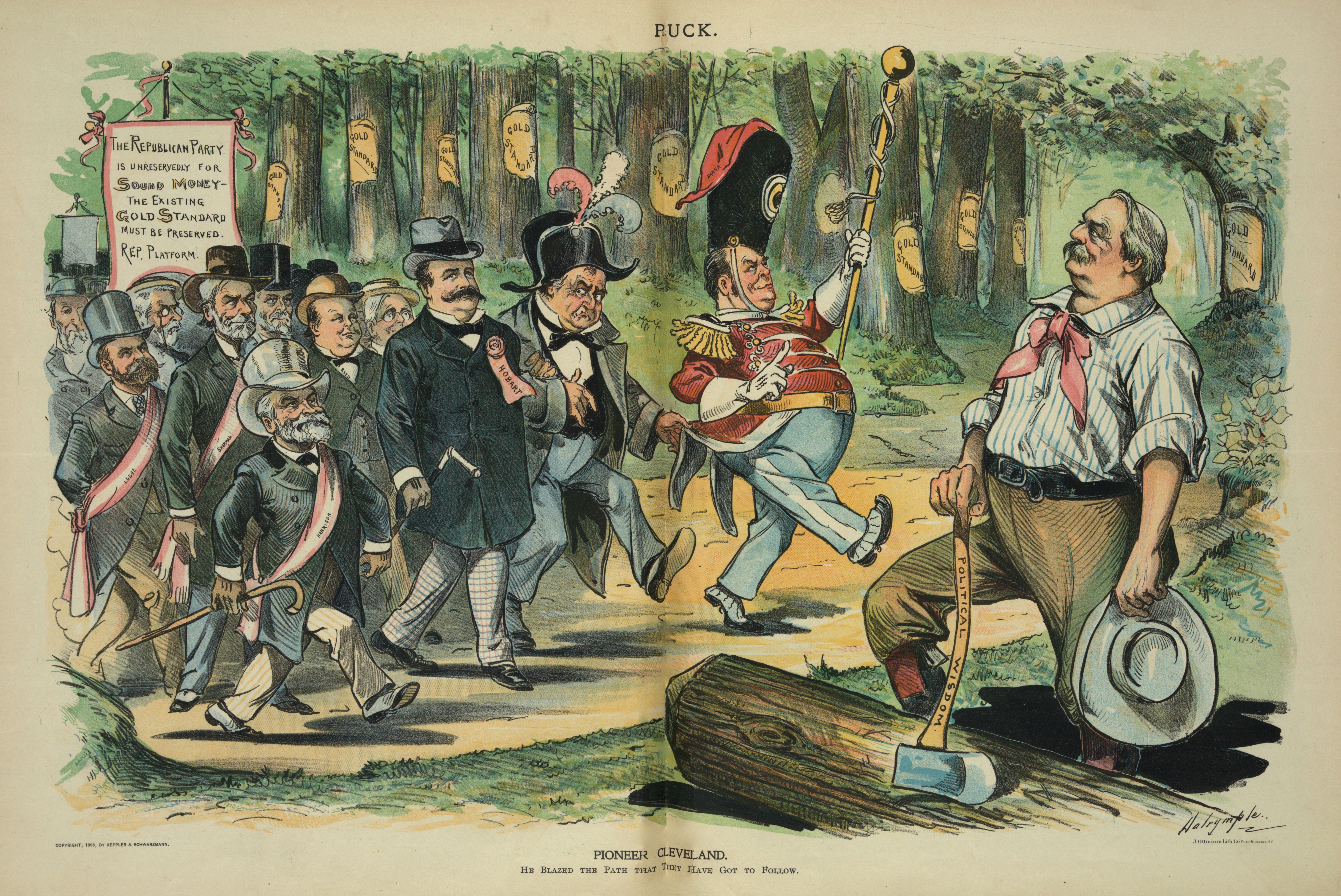 Louis Dalrymple cartoon from Puck magazine: President Grover Cleveland (to right) has blazed the path by firmly adhering to the gold standard, which Puck considers "sound money": Cleveland has paused in his work to watch the "Sound Money Parade" come through. Mark Hanna is the drum major, Republican presidential candidate William McKinley (dressed as Napoleon, who he was said to resemble) and vice presidential candidate Garret Hobart are in the first row behind him, former president Benjamin Harrison (with brown cane) is also in the front row, Henry Cabot Lodge, John Sherman, Thomas Reed, and other Republican notables march behind. Note that McKinley is blind and following Hanna by holding on to his coattails; he is also gripping Hobart's arm.